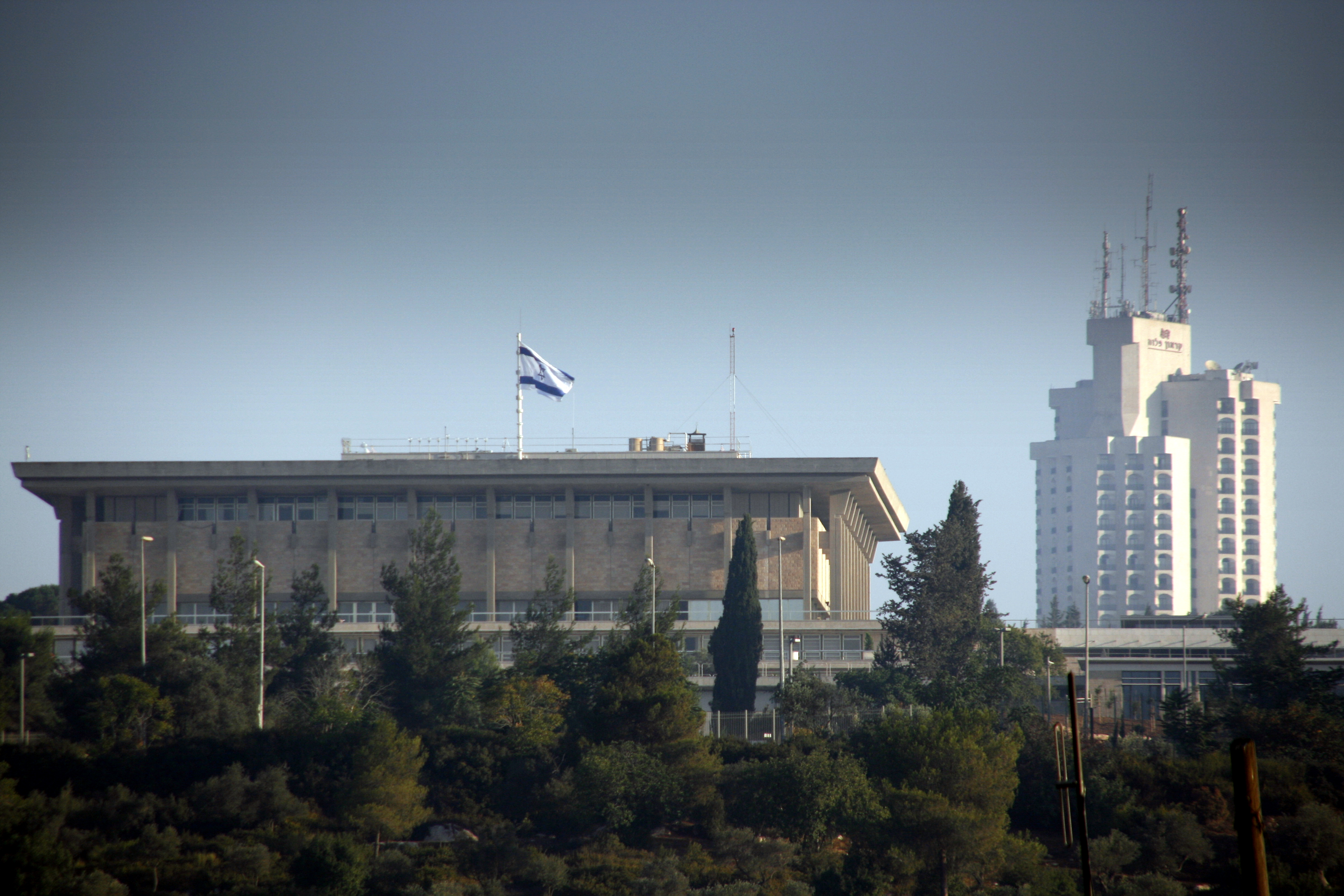 The Knesset and the Crown Plaza hotel in Jerusalem